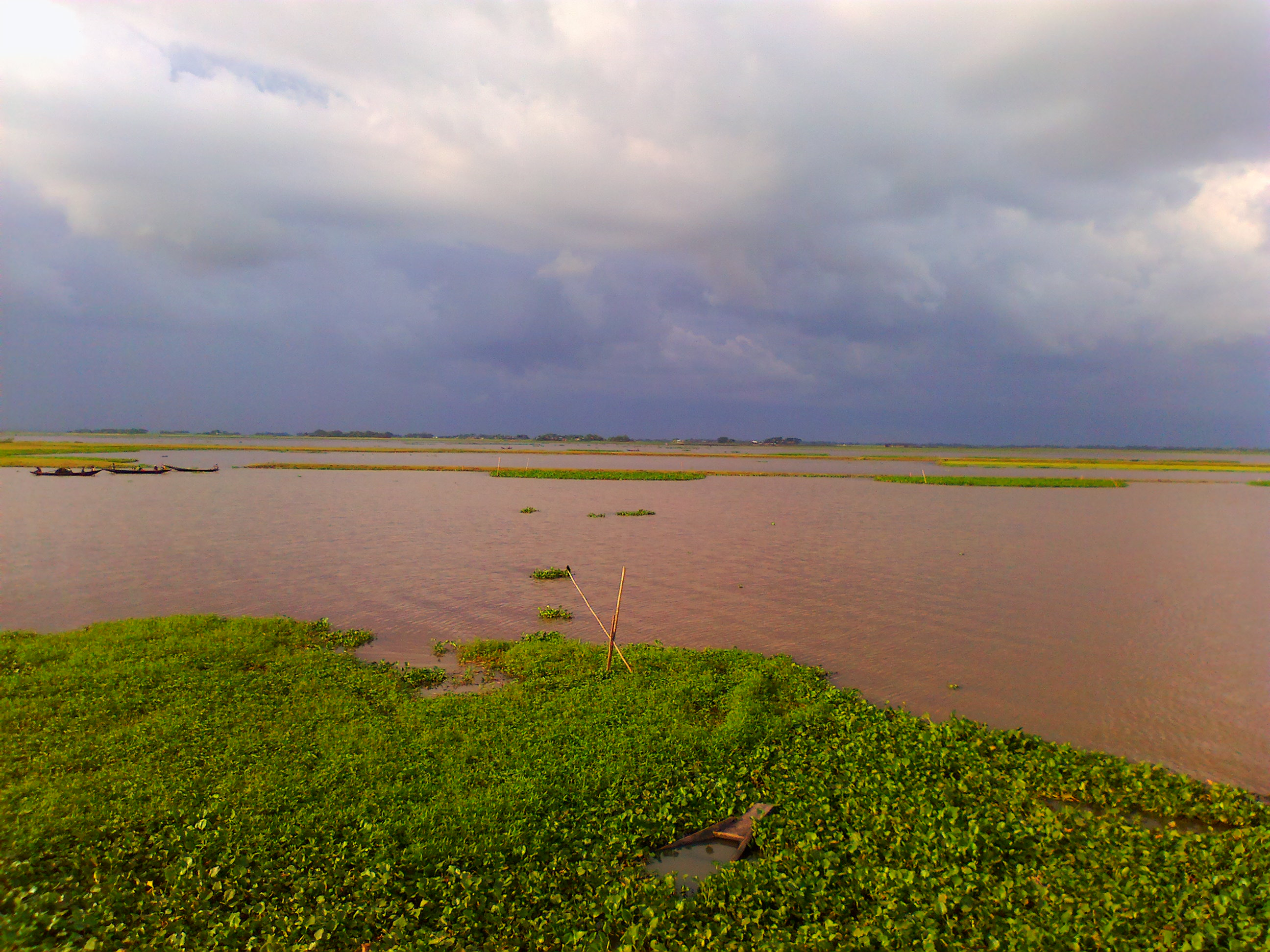 A beautiful scenery of Titas River, Brahmanbaria.